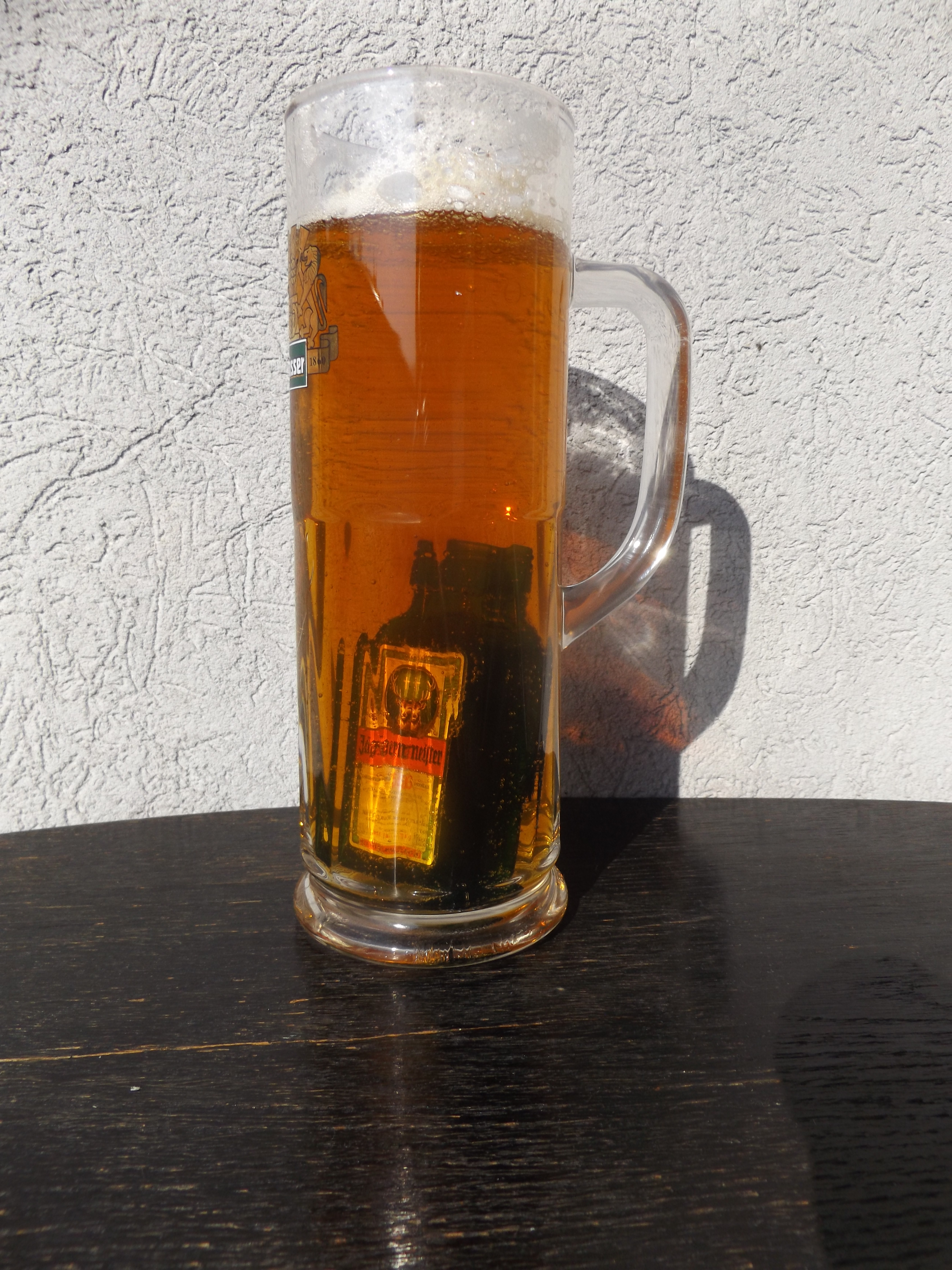 U-Boot cocktail, made of beer and a shot of Jägermeister, in a beer mug